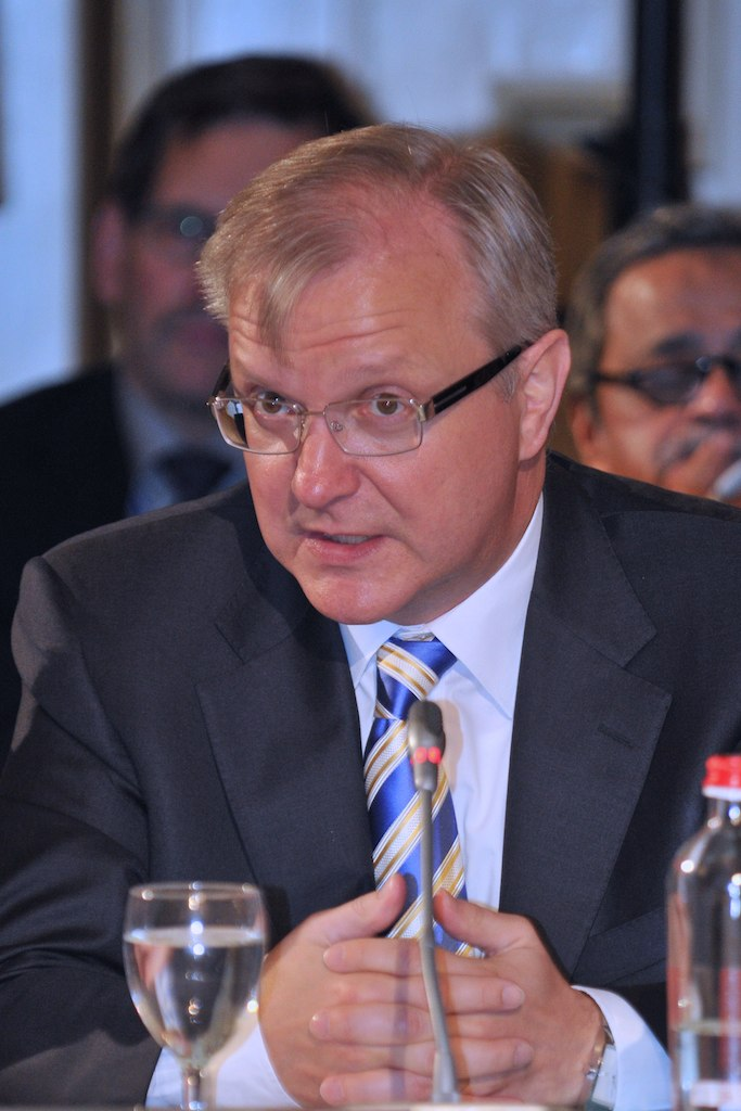 Olli Rehn, EU Economic and Monetary Affairs Commissioner